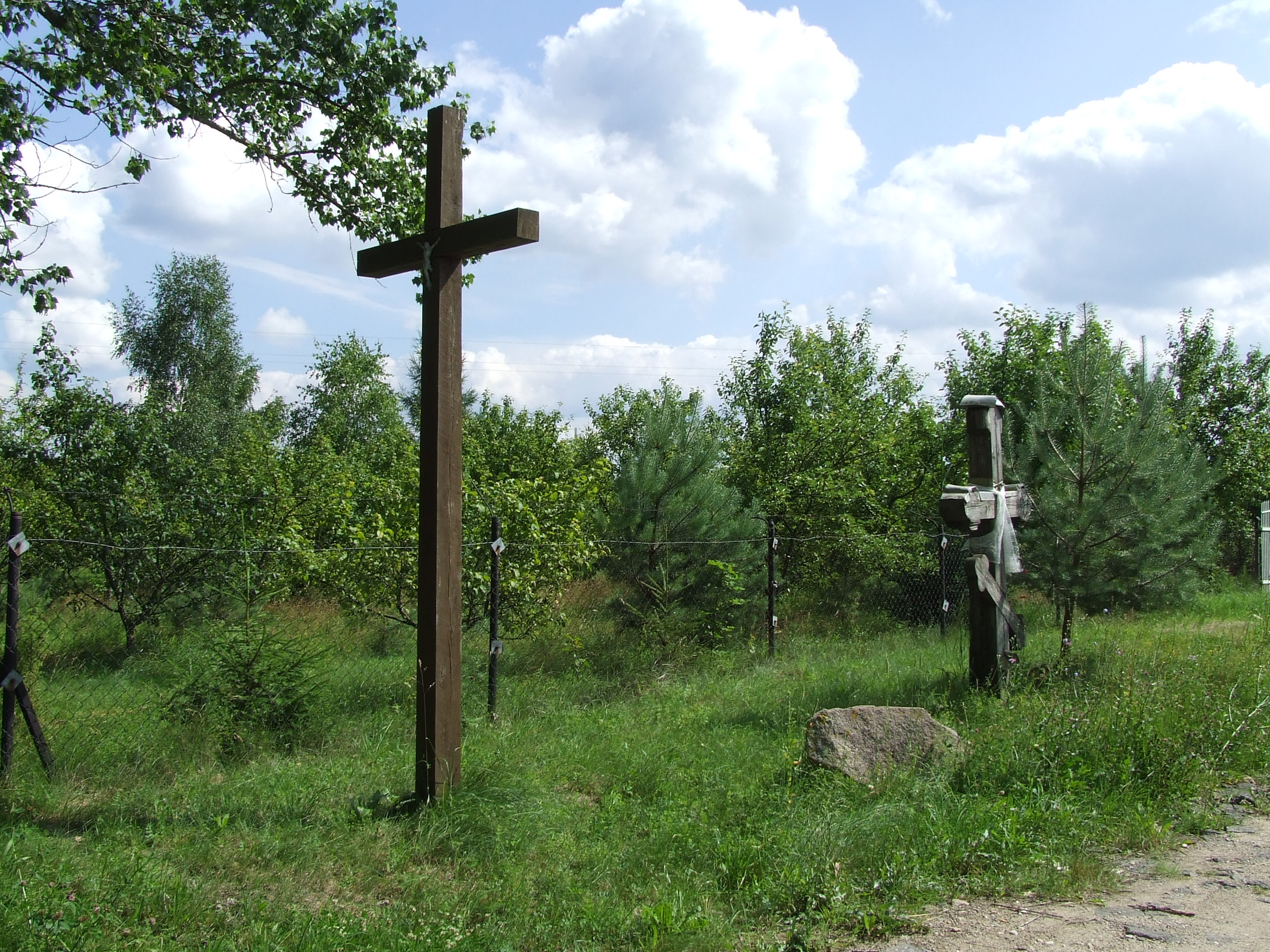 This photo from Podlaskie Voievodeship was taken during Polish Wikiexpedition 2009 set up by Wikimedia Polska Association. The making of this document was supported by Wikimedia Polska.